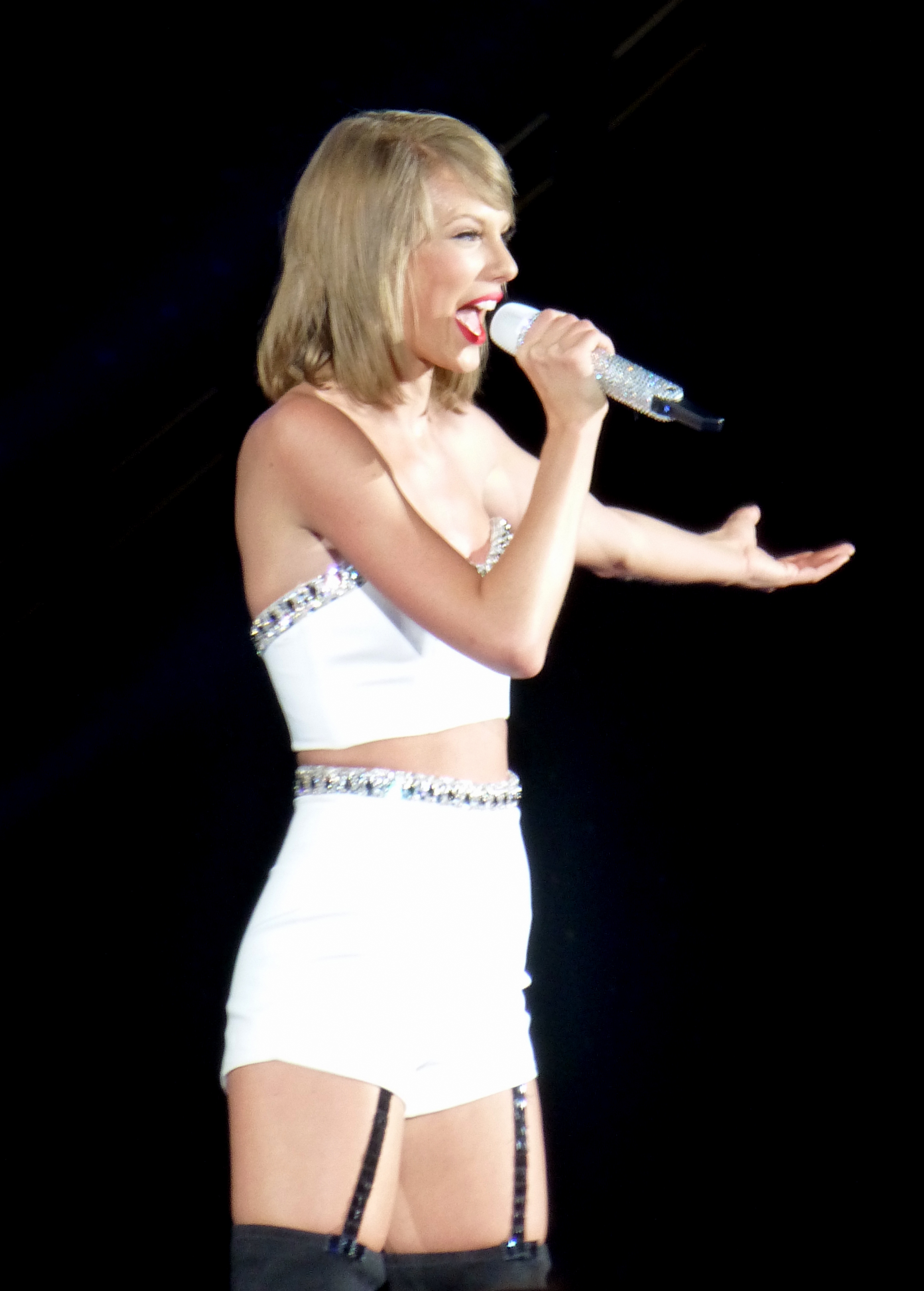 Taylor Swift 1989 Tour at Ford Field in Detroit, 5/30/15